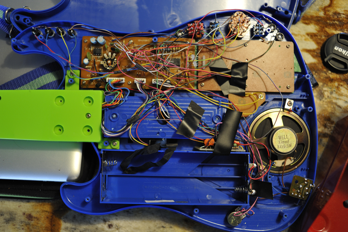 1989 Kawasaki Electronic Digital Guitar by Remco (as a reference, you have on the site indicated here, a video where you can hear the sound of this guitar: circuit bent). Source: kawi2 (Flickr).